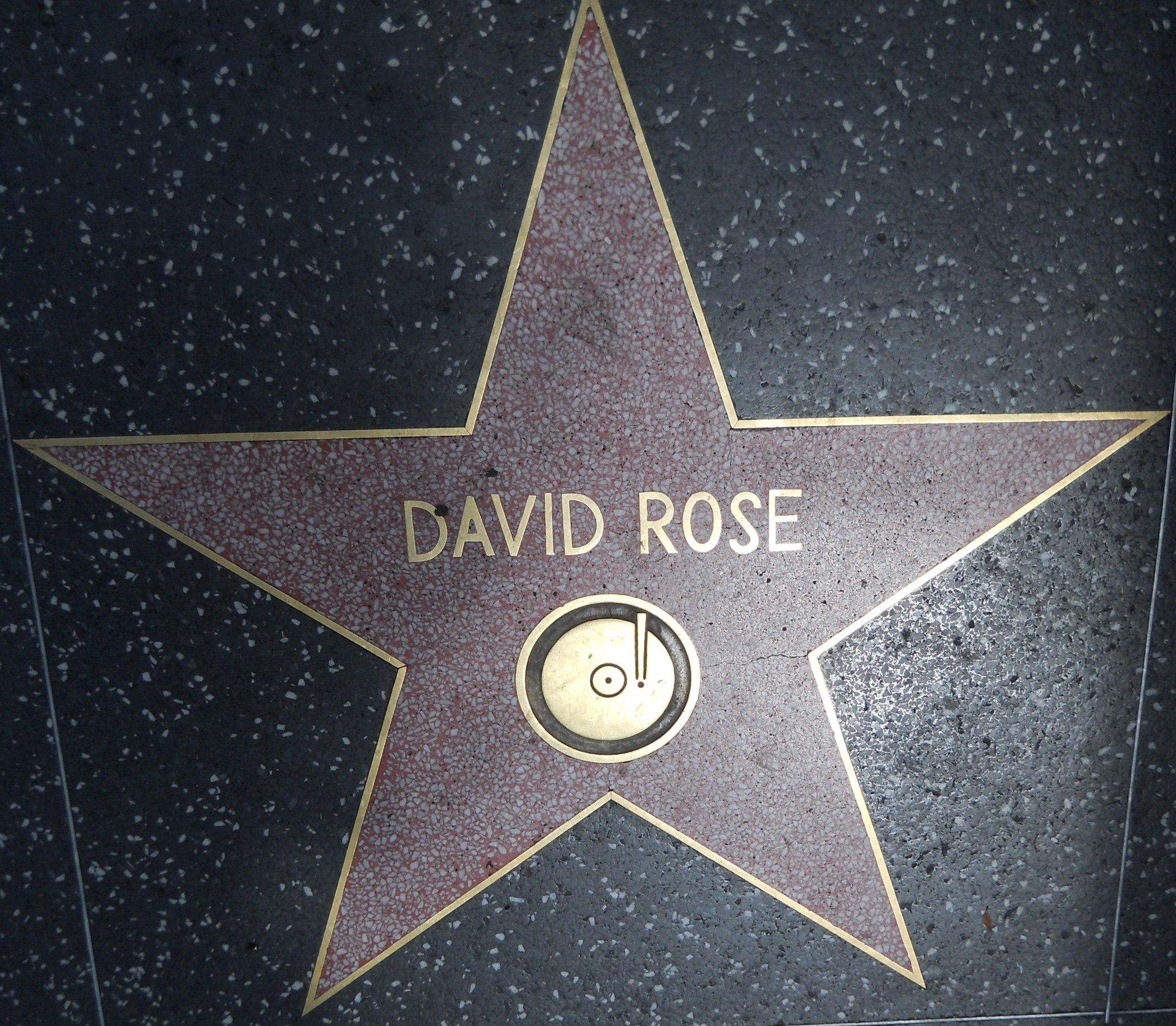 David Rose's star on the Hollywood Walk of Fame at 6514 Hollywood Blvd.